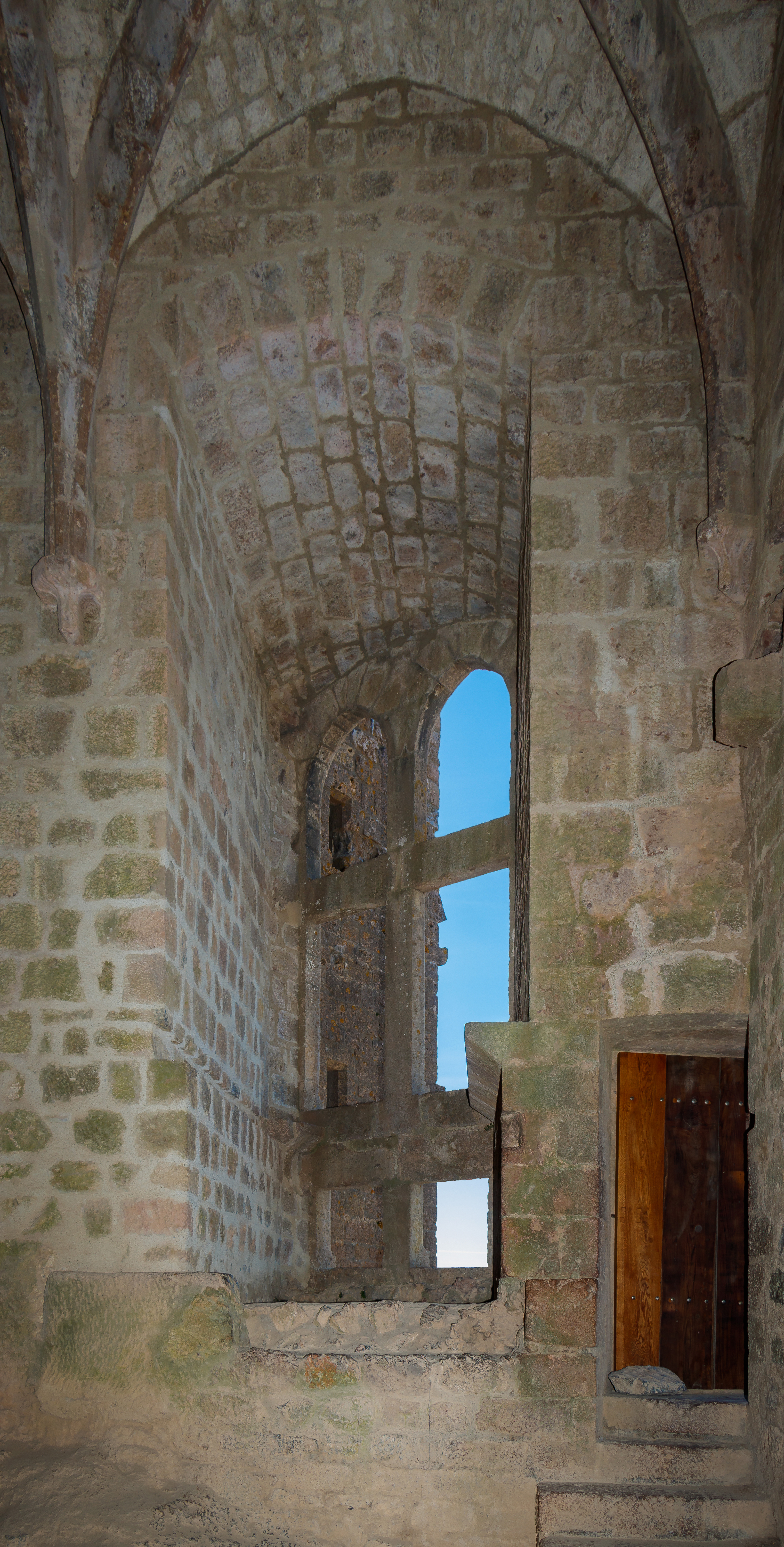 Large Renaissance window, Château de Quéribus, Cucugnan, Département Aude, France